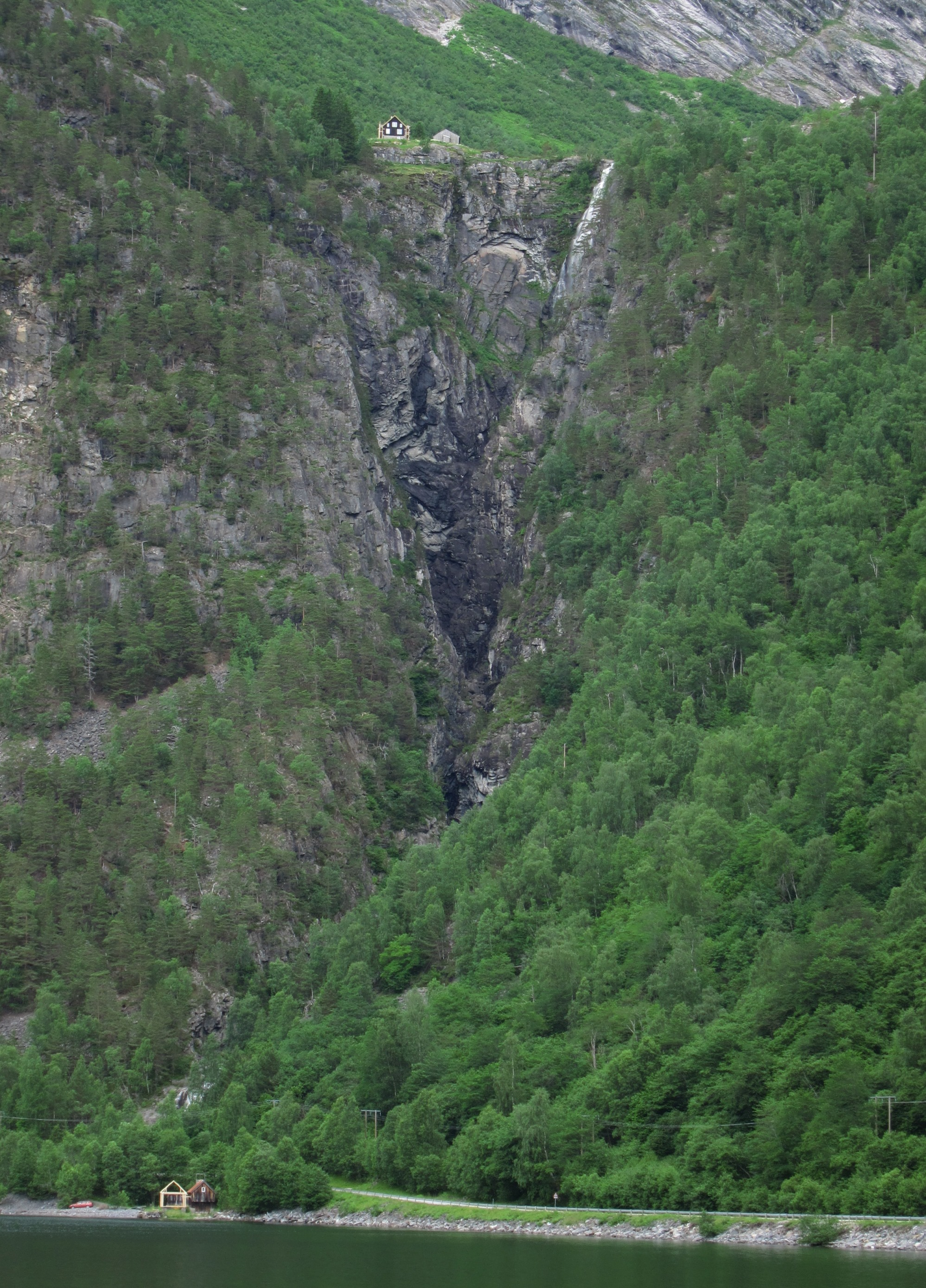 Muldalsfossen (Muldal waterfall), Tafjorden, Norway